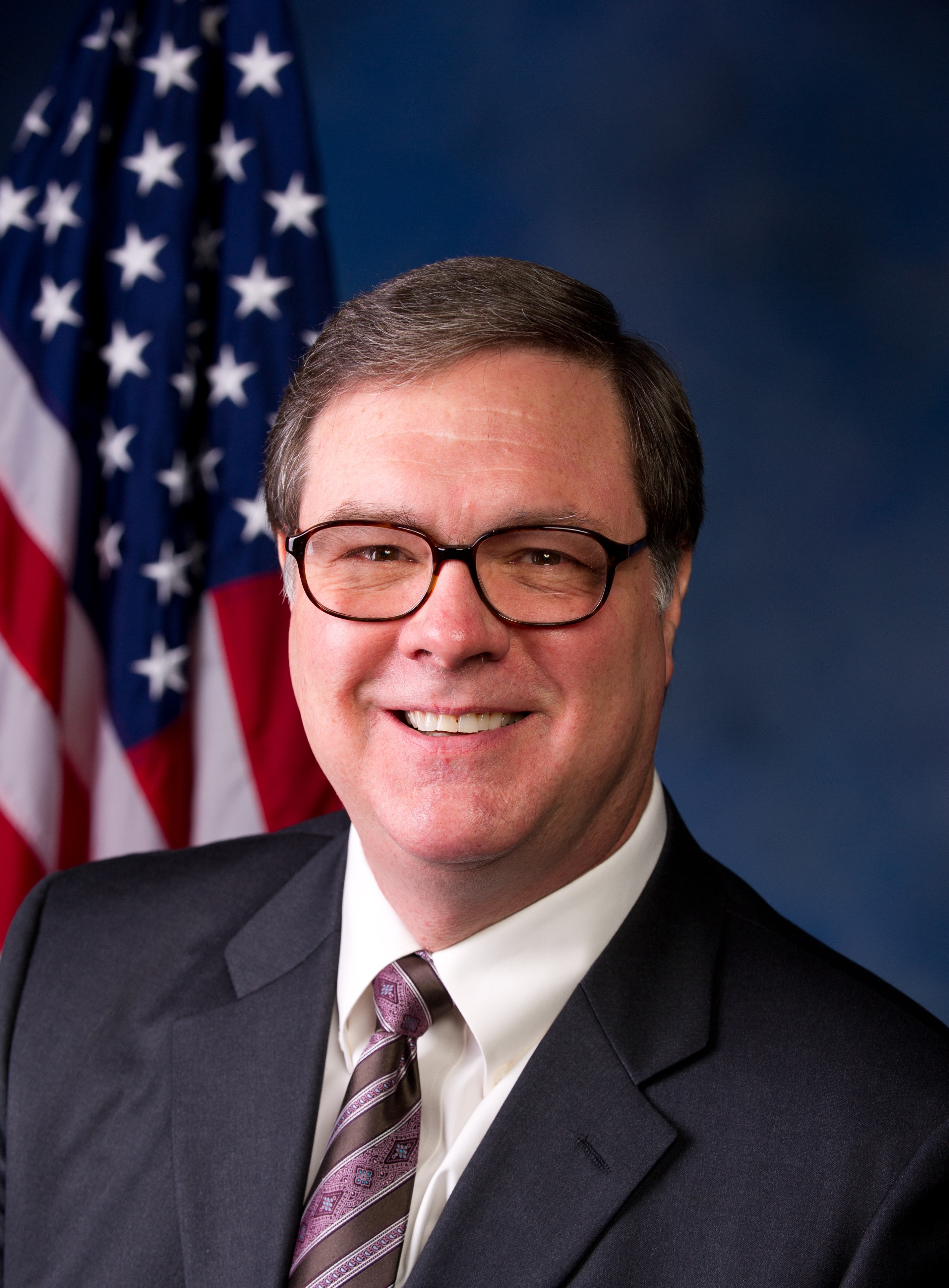 Congressman Denny Heck in 2012